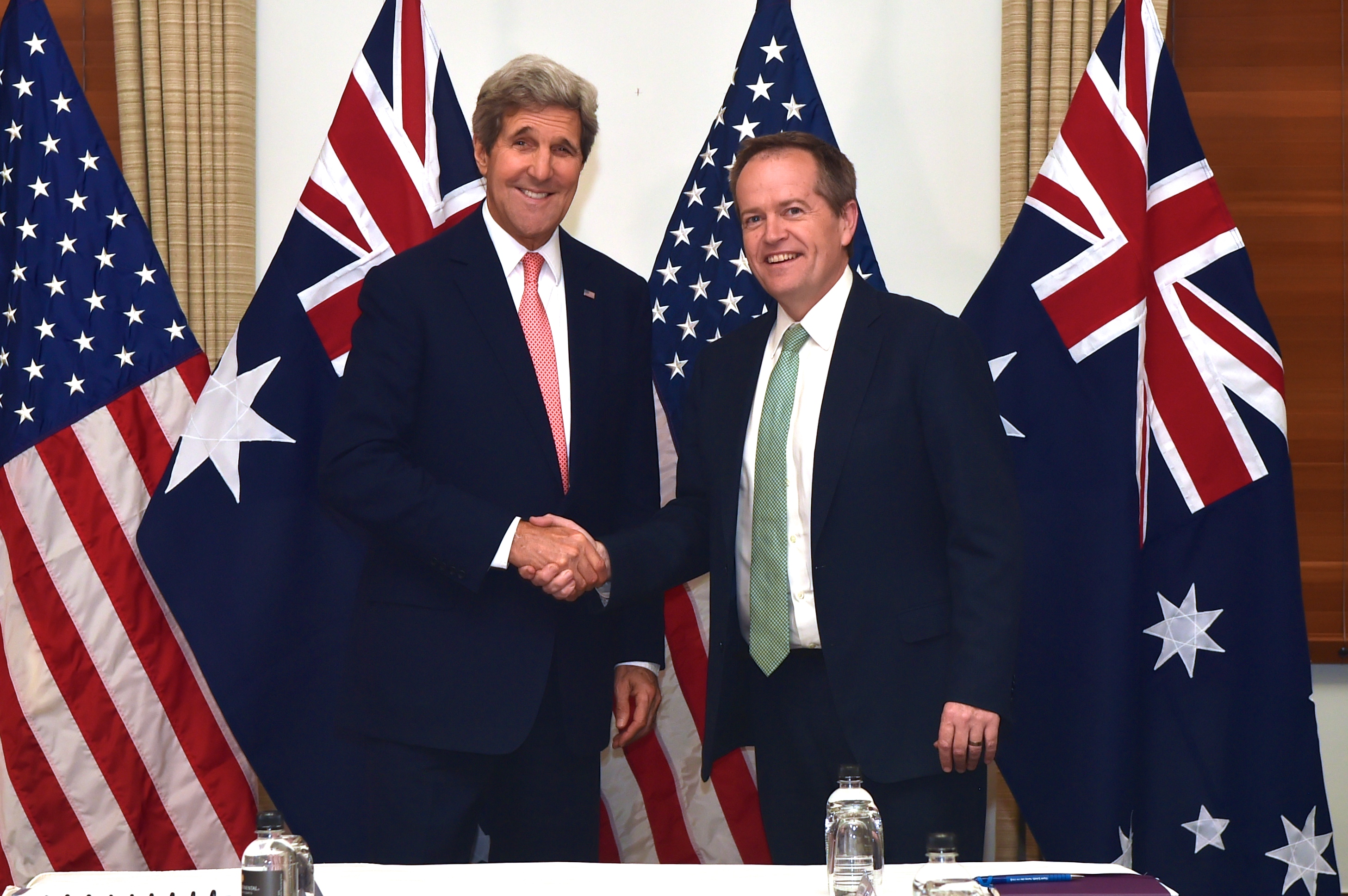 U.S. Secretary of State John Kerry meets with Australian opposition leader Bill Shorten following completion of a successful Australia-U.S. Ministerial meeting in Sydney, Australia on August 12, 2014.